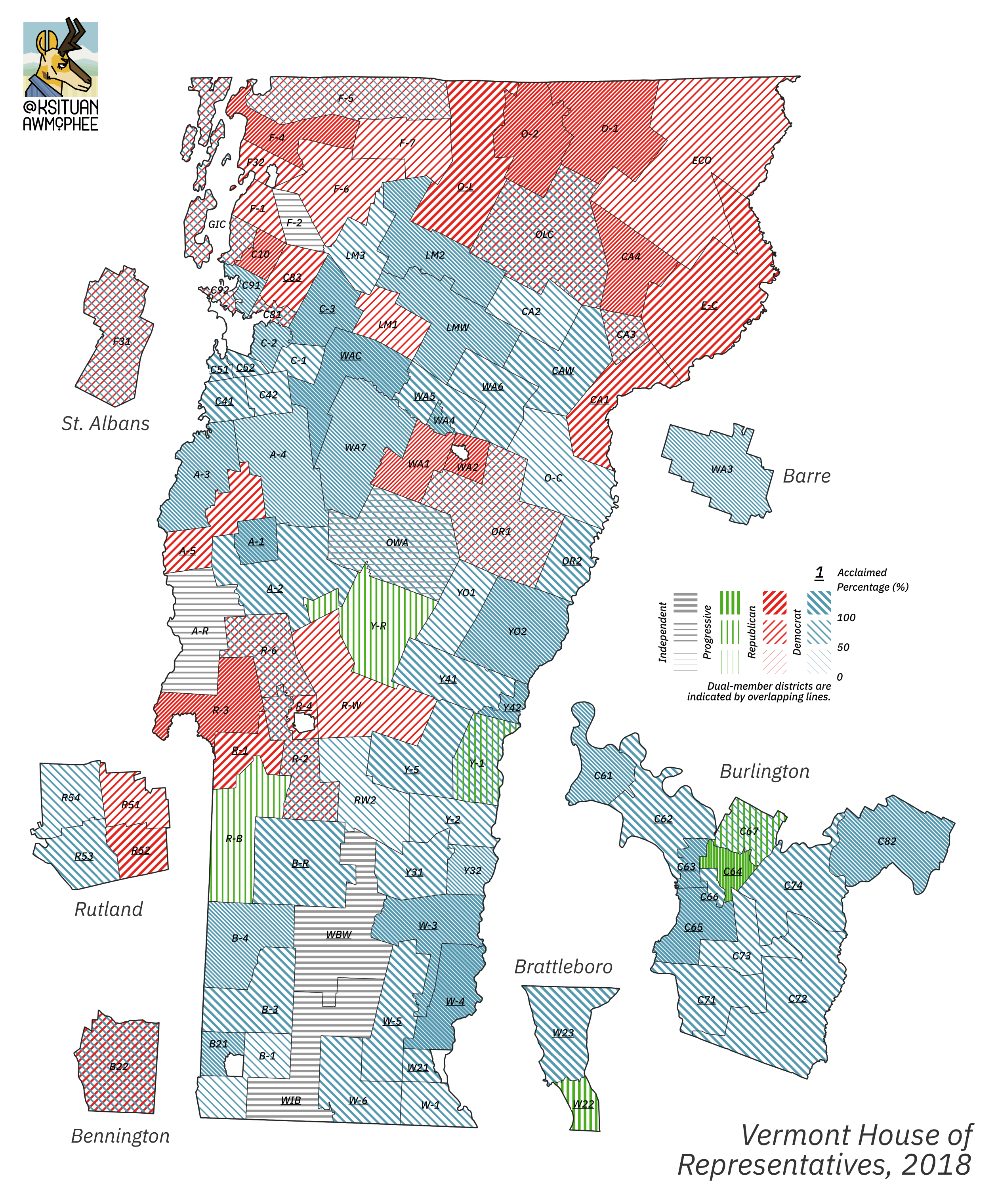 A series of state legislative election maps, created from open data during the summer of 2020. Their common visual style is designed to accomodate all of the unique features of American democracy. They were created using QGIS and Inkscape, two free programs. Please use freely and contact the author with any inquiries about visualizing election data with open-source tools.